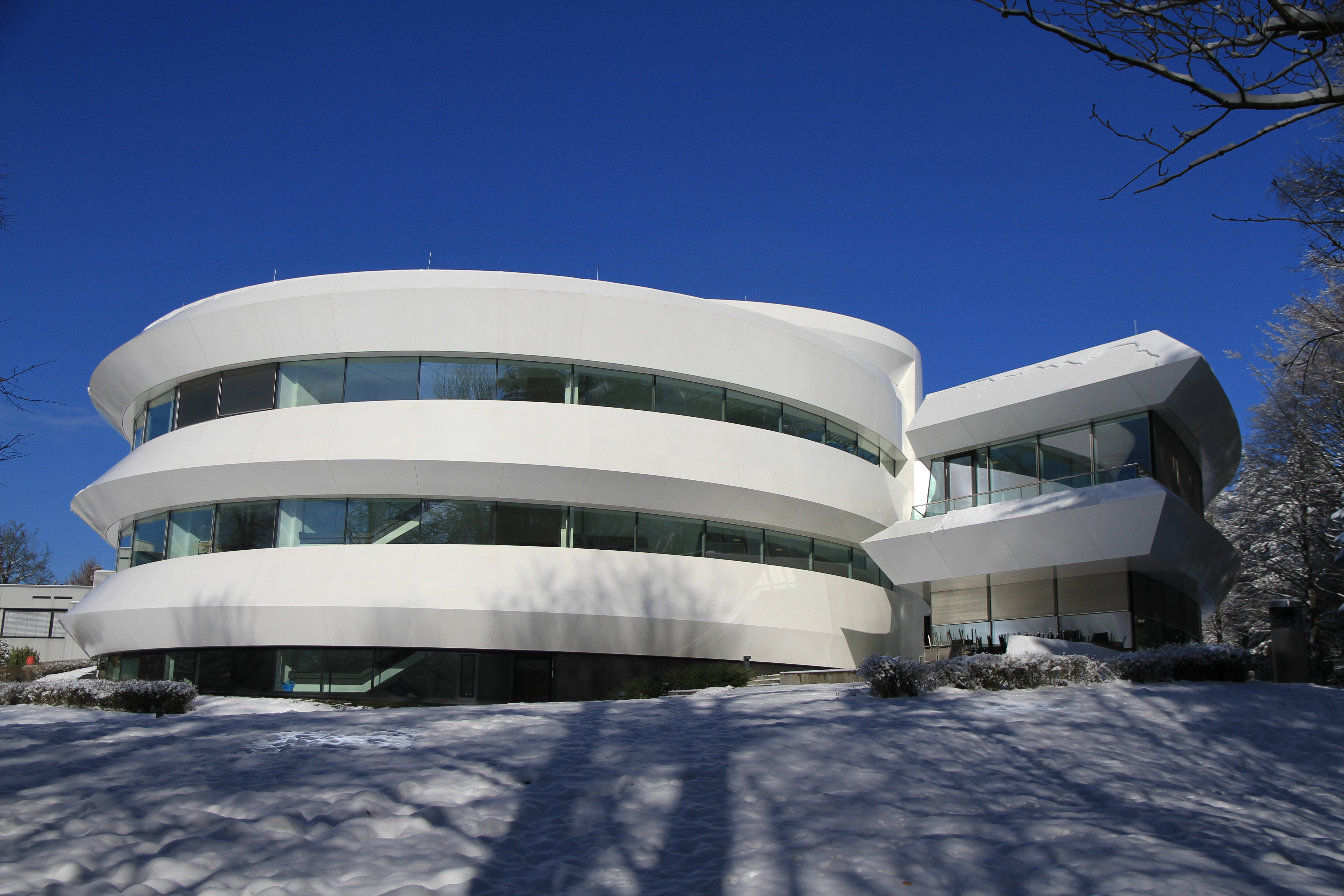 Haus der Astronomie, a center for astronomy education and outreach in the shape of a spiral galaxy, on Königstuhl Mountain in Heidelberg on February 5, 2018